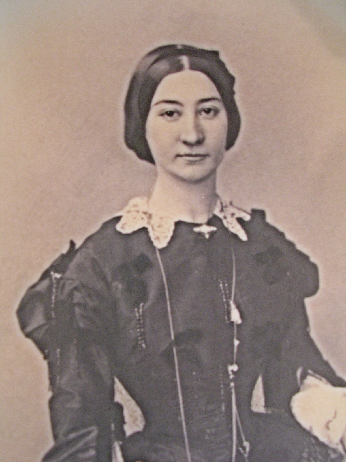 Portrait of Italian opera singer Angiolina Bosio (1824-1859)